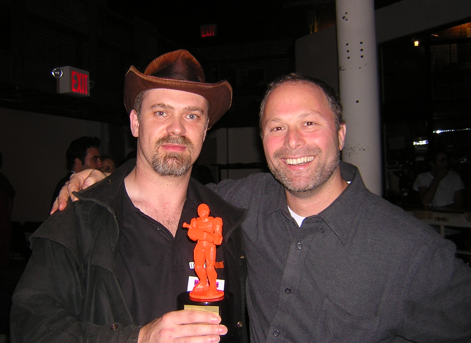 Matt Kelland of Short Fuze (left) and Keith Halper of Kuma Reality Games with the award for Best Technical Achievement in machinima from the 2008 Machinima Film Festival